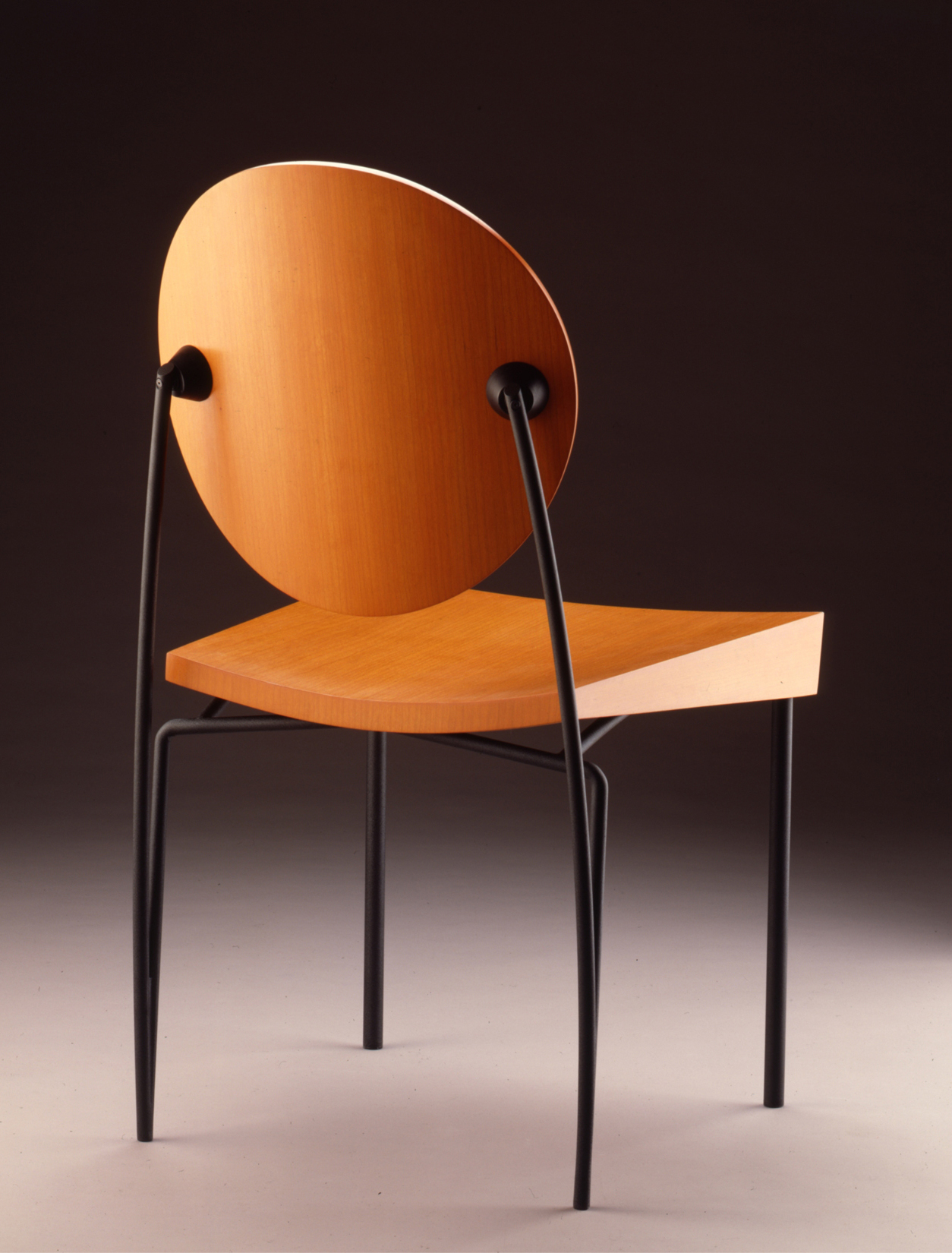 The Vik-ter Chair by Dakota Jackson Dakota Jackson’s Vik-ter Chair was his first mass-produced design and was recognized for use of sustainable materials when it was introduced in 1992.